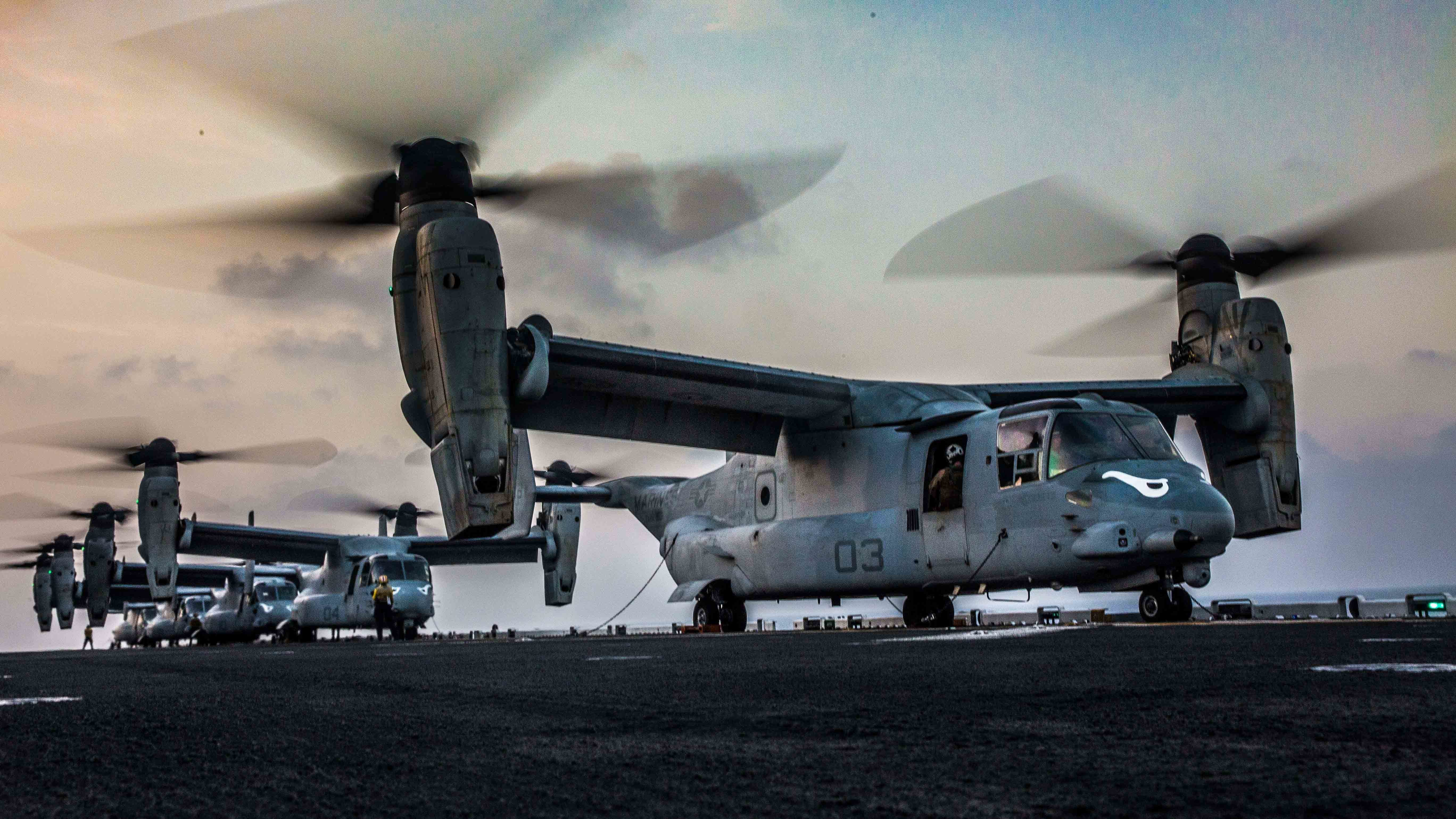 U.S. Marine MV-22 Ospreys, assigned to the Ridge Runners of Marine Medium Tiltrotor Squadron 163 (VMM-163)(Reinforced), prepare to takeoff from the flight deck of the amphibious assault ship USS Makin Island (LHD 8) in support of a helo-borne raid during Exercise Alligator Dagger, in the Gulf of Aden, Dec. 21, 2016. The unilateral exercise provides an opportunity for the Makin Island Amphibious Ready Group and 11th Marine Expeditionary Unit to train in amphibious operations within the U.S. 5th Fleet area of operations. The 11th MEU is currently supporting U.S. 5th Fleet’s mission to promote and maintain stability and security in the region. (U.S. Marine Corps photo by Lance Cpl. Brandon Maldonado)